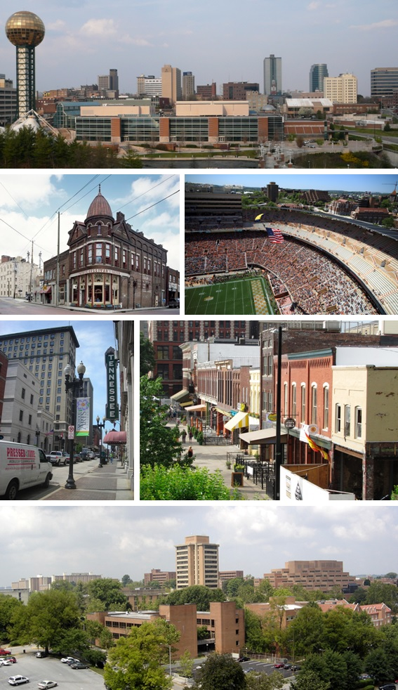 From top to bottom, clockwise: Skyline of Knoxville; Neyland Stadium; Market Square; University of Tennessee campus; Gay Street; Patrick Sullivan's Saloon